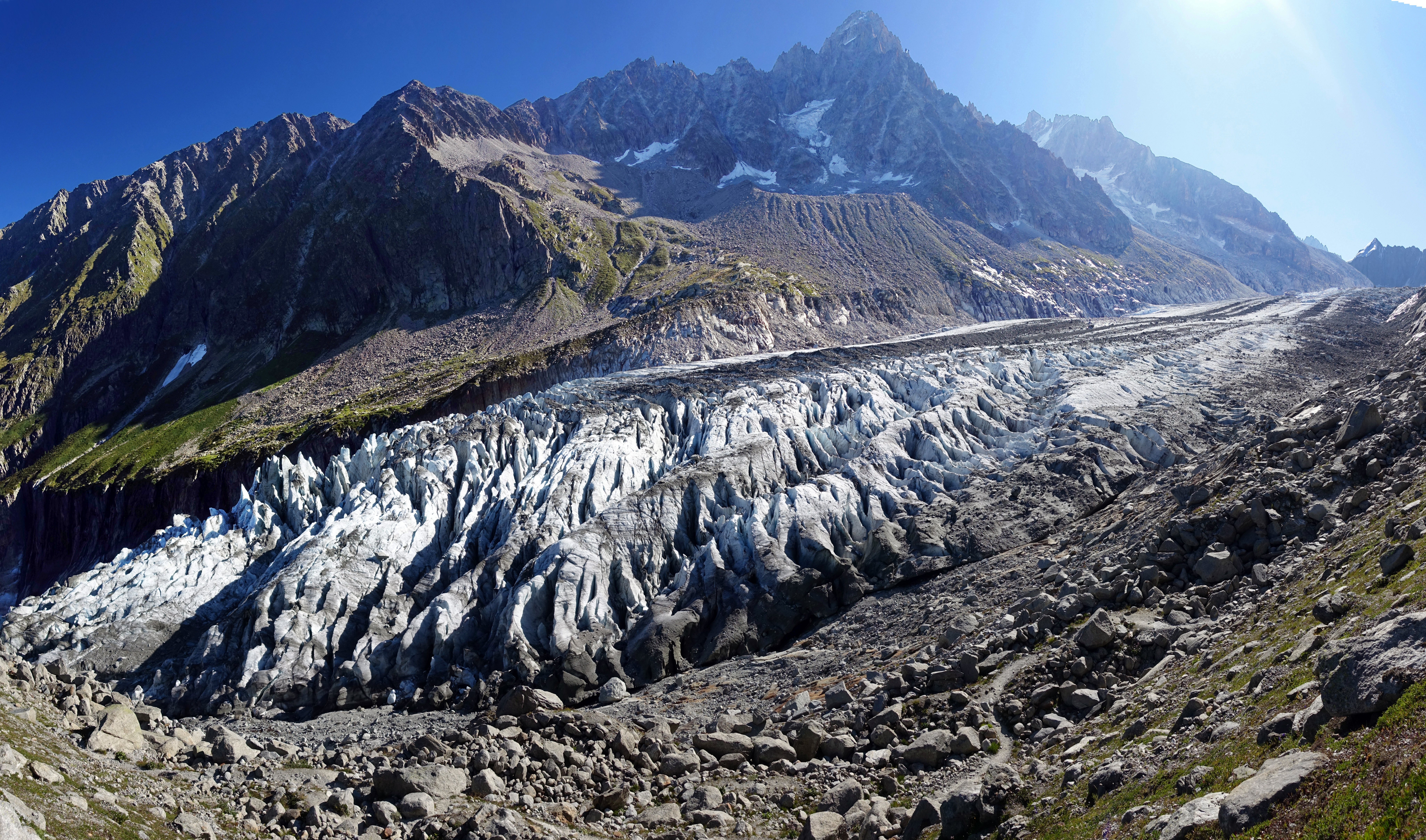 Argentière Glacier in Chamonix, France.